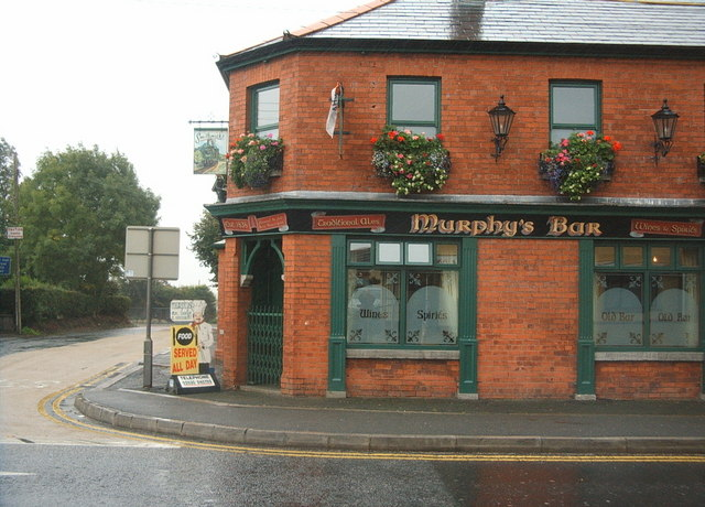 Meigh Village Centre Good food and close to Slieve Gullion Forest Park